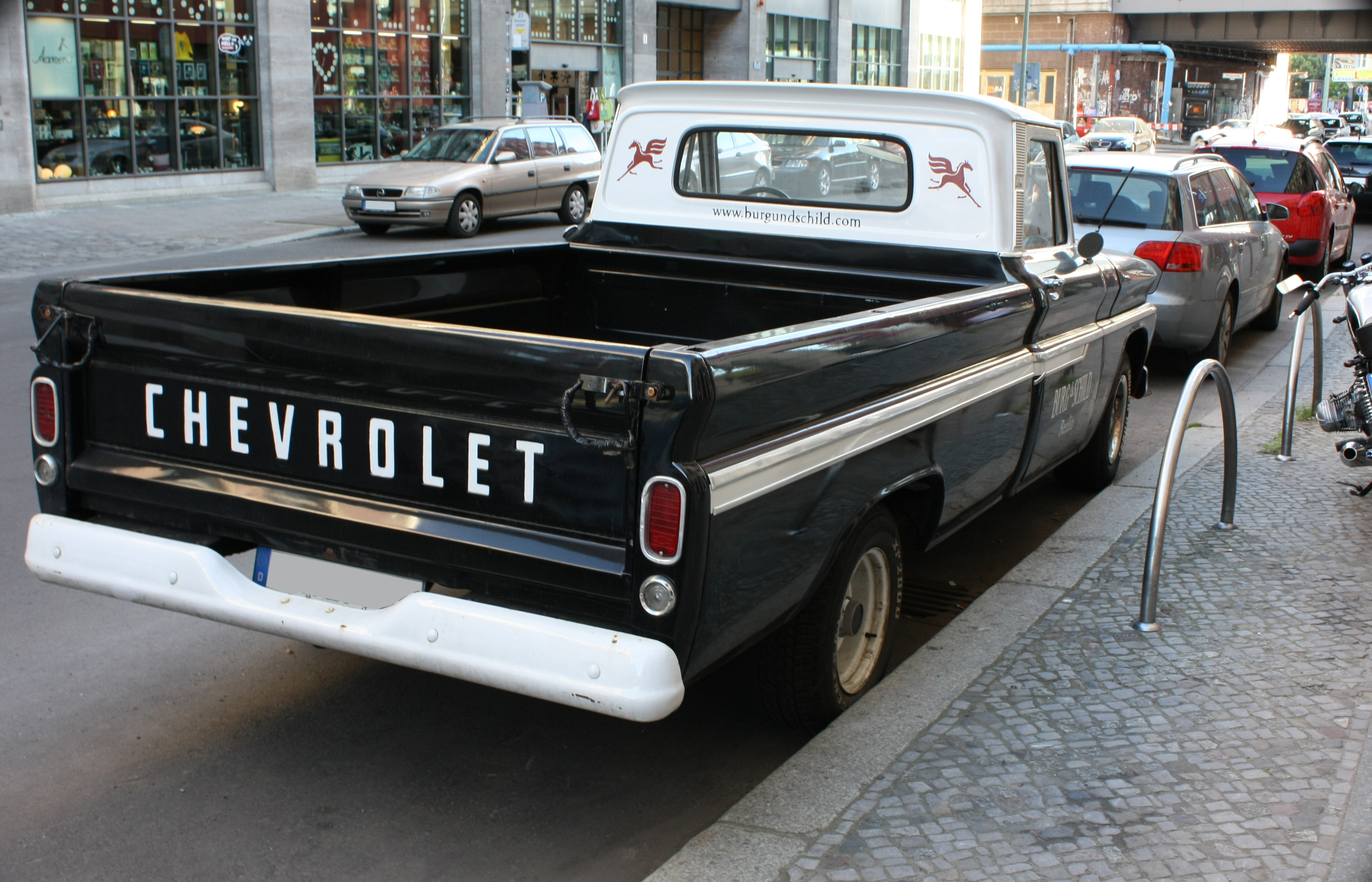 1966 Chevrolet C/K Series